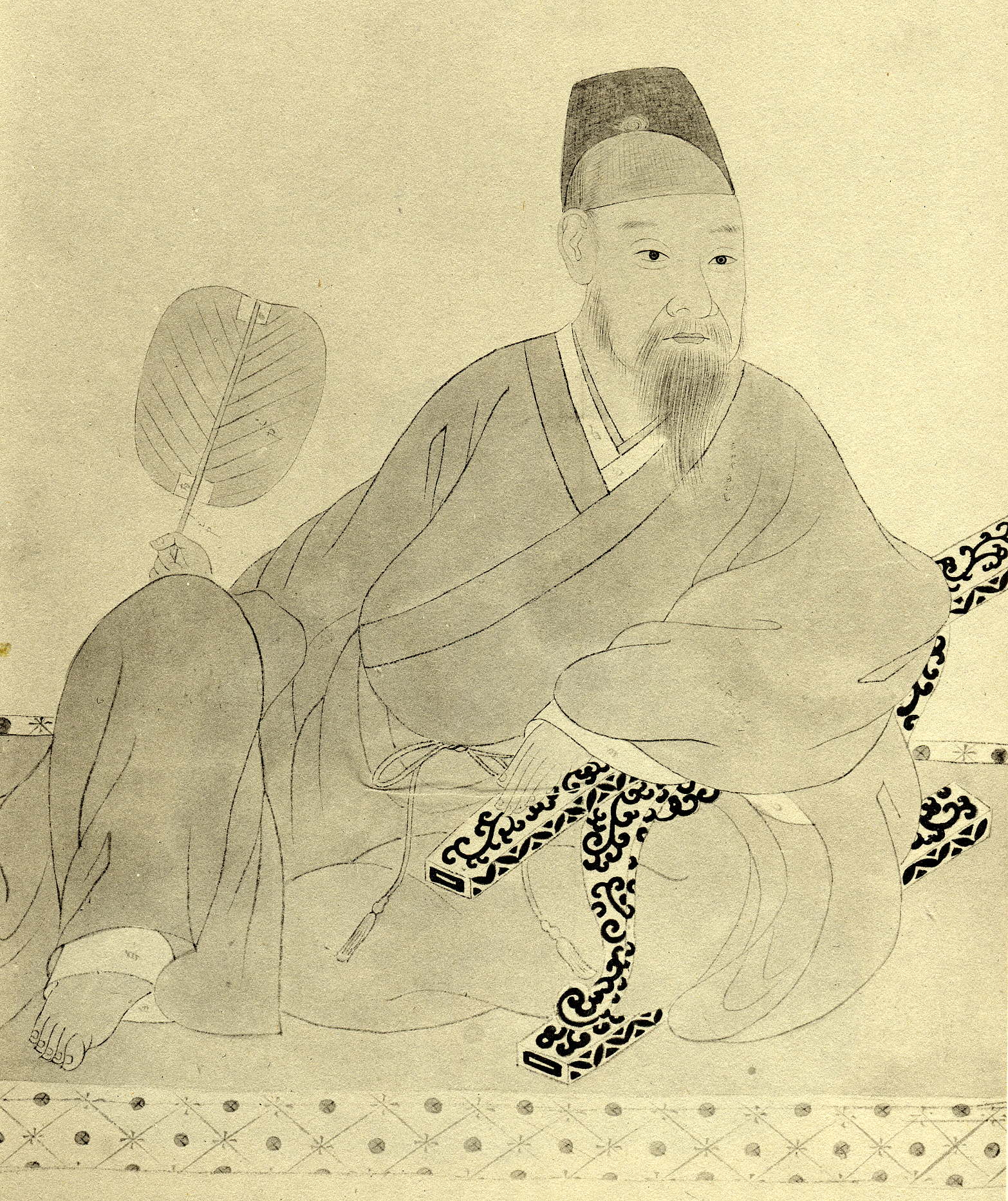 Botanka Shohaku（牡丹花肖柏）was a japanese poet in Muromachi period.